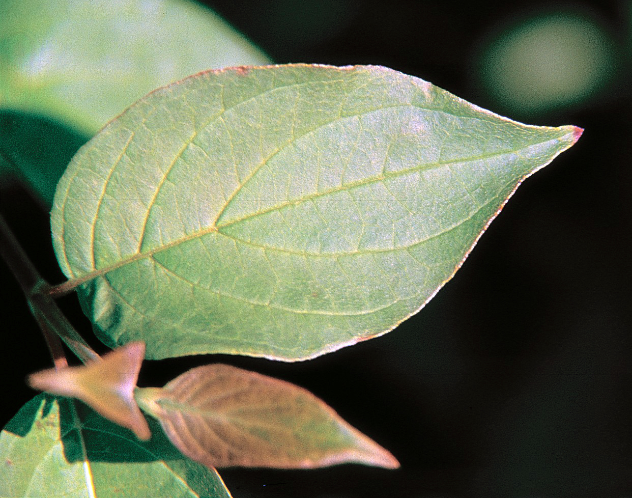 leaf of Cornus sericea